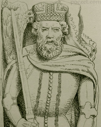 Boleslaus (Bolko) II of Opole